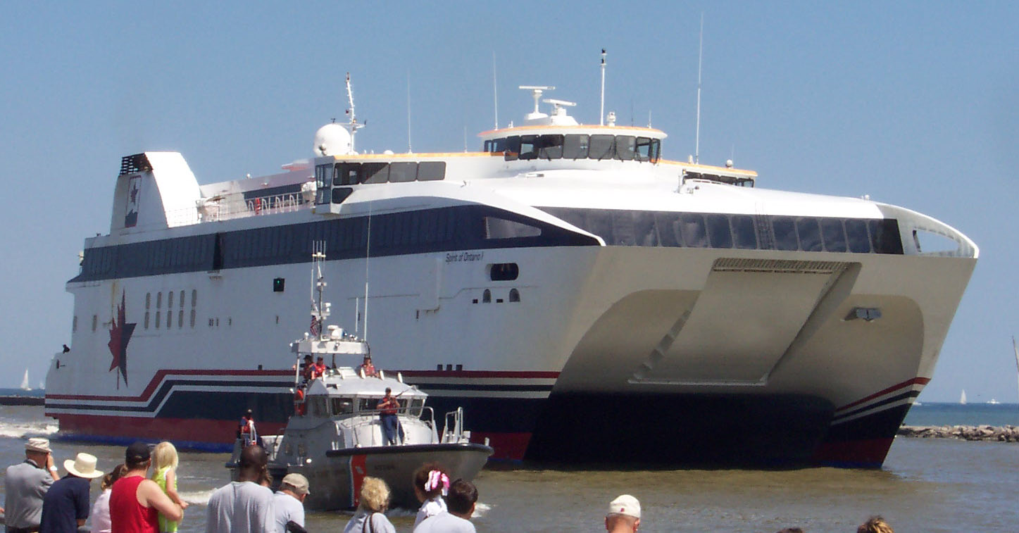 A picture of the Spirit of Ontario 1, part of The Breeze fast ferry service between Rochester NY and Toronto ON, taken August 8, 2004 by Ryan Tucker. Image was taken from the Pier at the Port of Rochester using a Kodak CX6330 digital camera. The vessel in the foreground of the picture is an unidentified United States Coast Guard patrol boat.